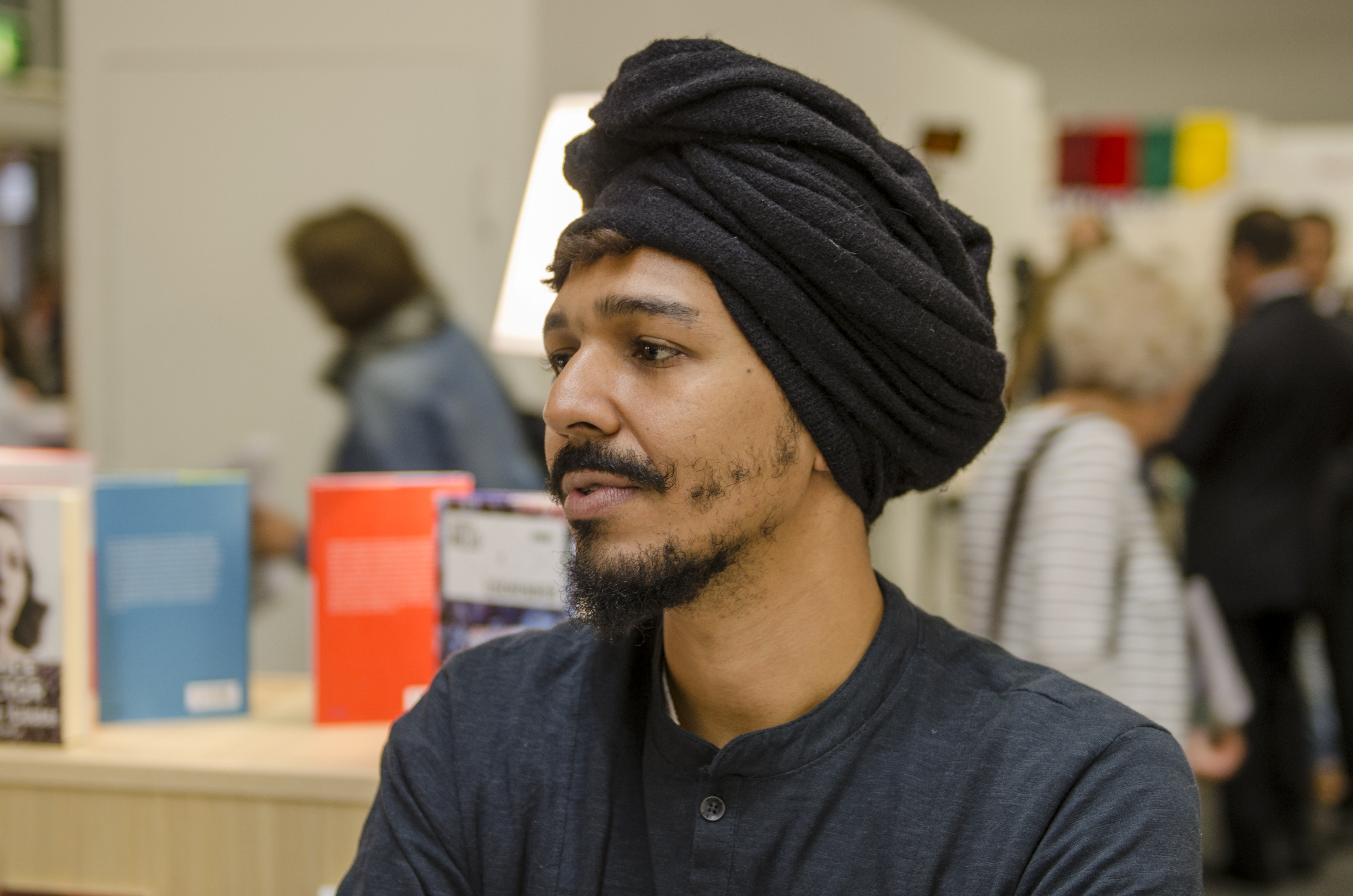 Jô Bilac at the Gothenburg Book Fair 2014.